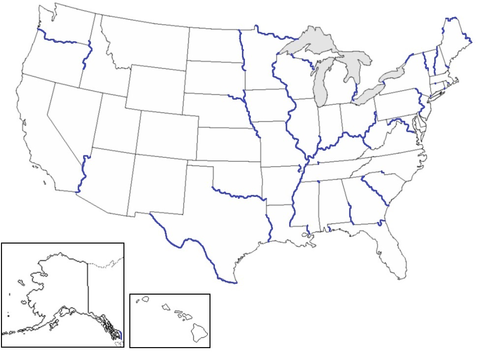 A map of the United States with rivers/waterways used as part of the border highlighted.